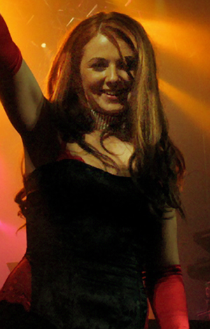 t.A.T.u. Bacardi B-LIVE in Moscow (Lena Katina)